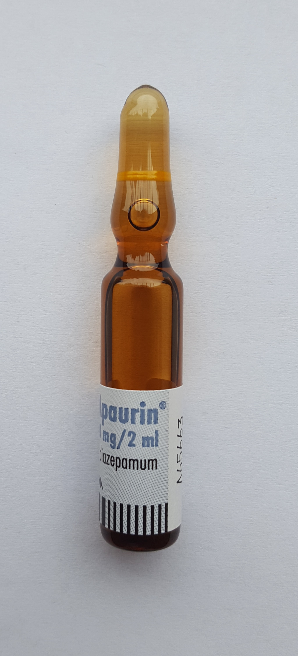 diazepam 10mg/2ml vial